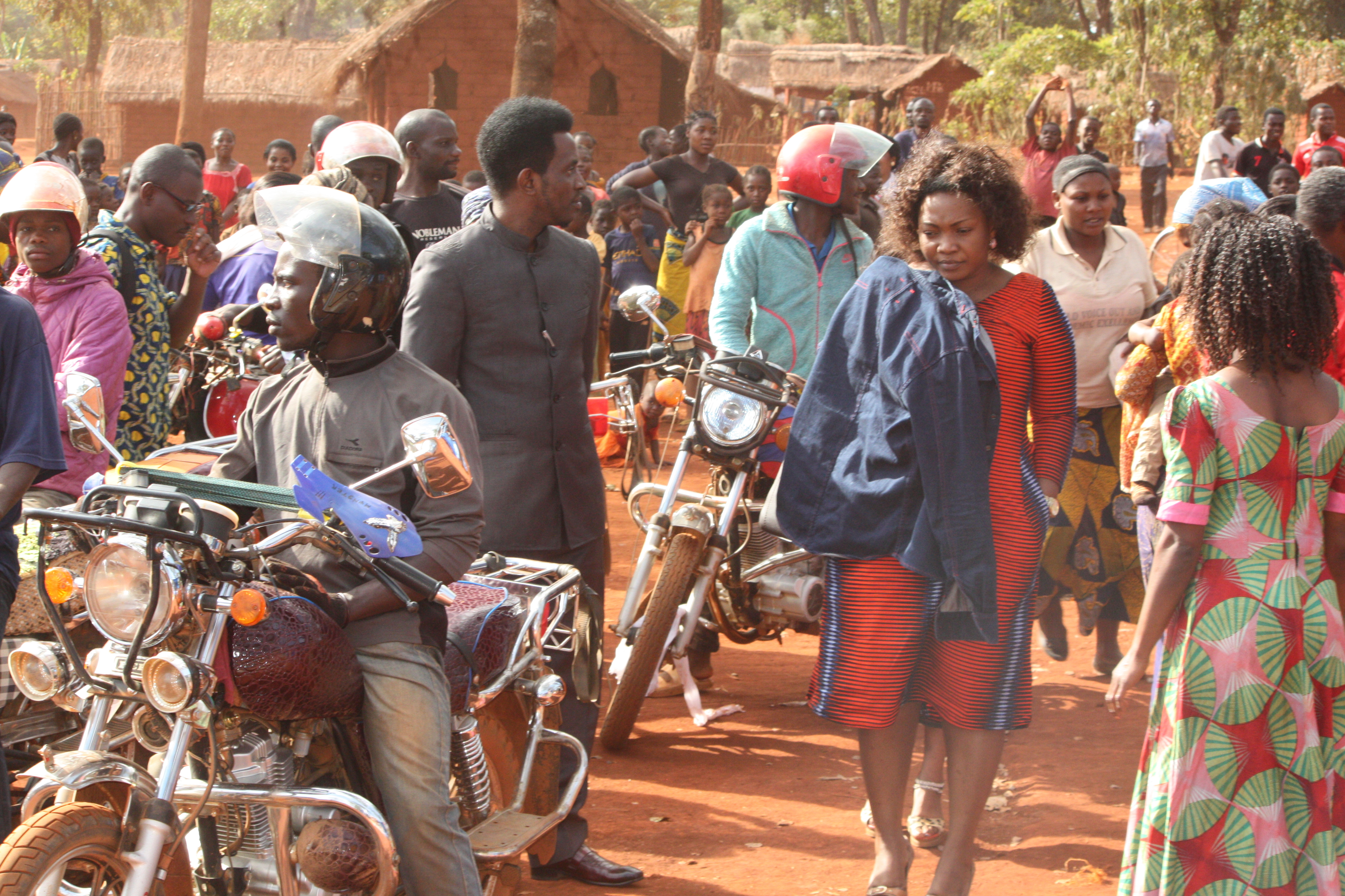 The Nyarugusu camp in Western Tanzania has been a permanent with refuges from Rwanda, Burundi and mostly Membe tribe from DRC. Martha and Husband stayed 4 5 days Comforting, Teaching and entertaining.